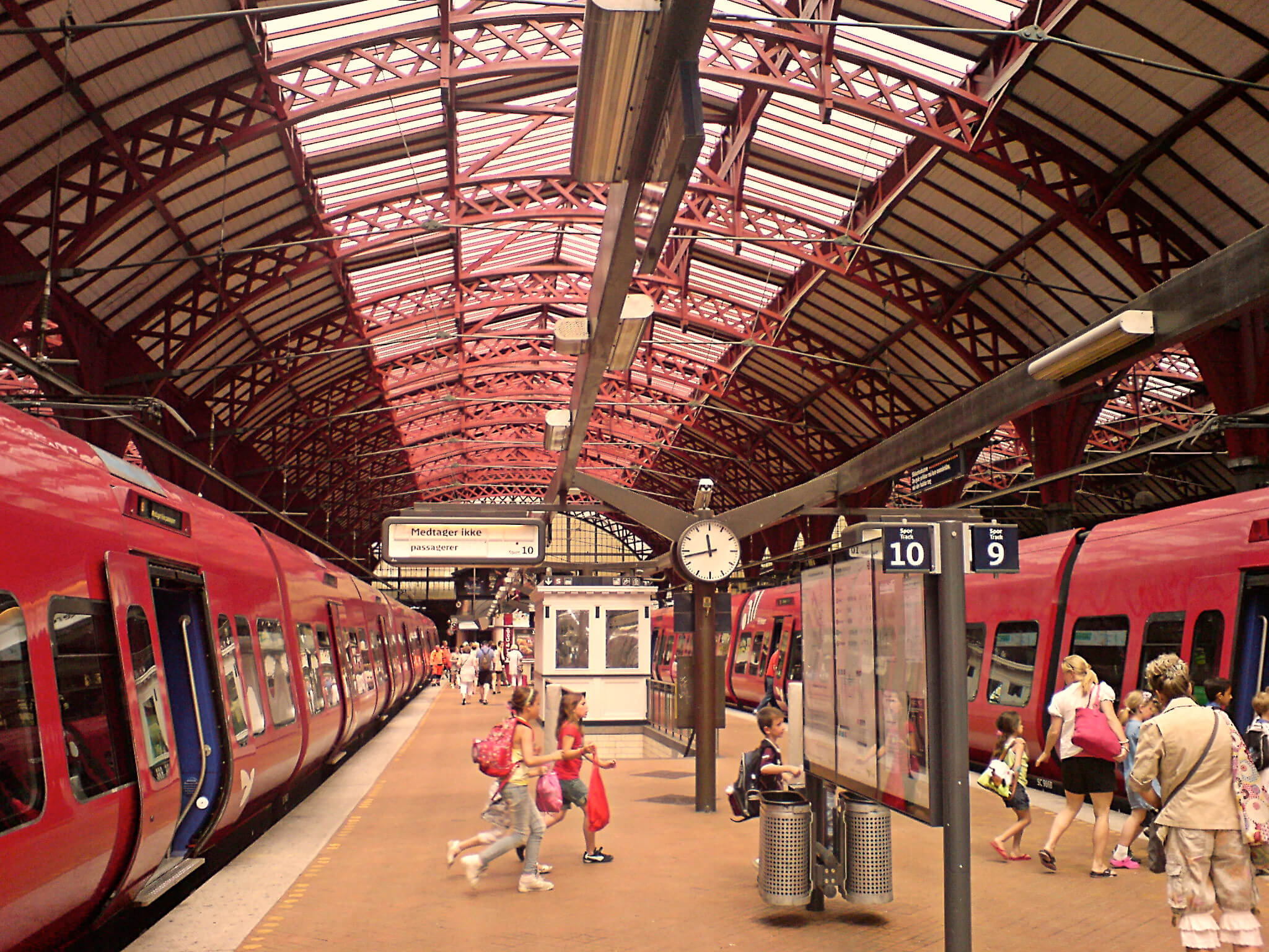 Author: Jan Sonberg; Licensing: Only use when attributing the picture to the author (Jan Sonberg).